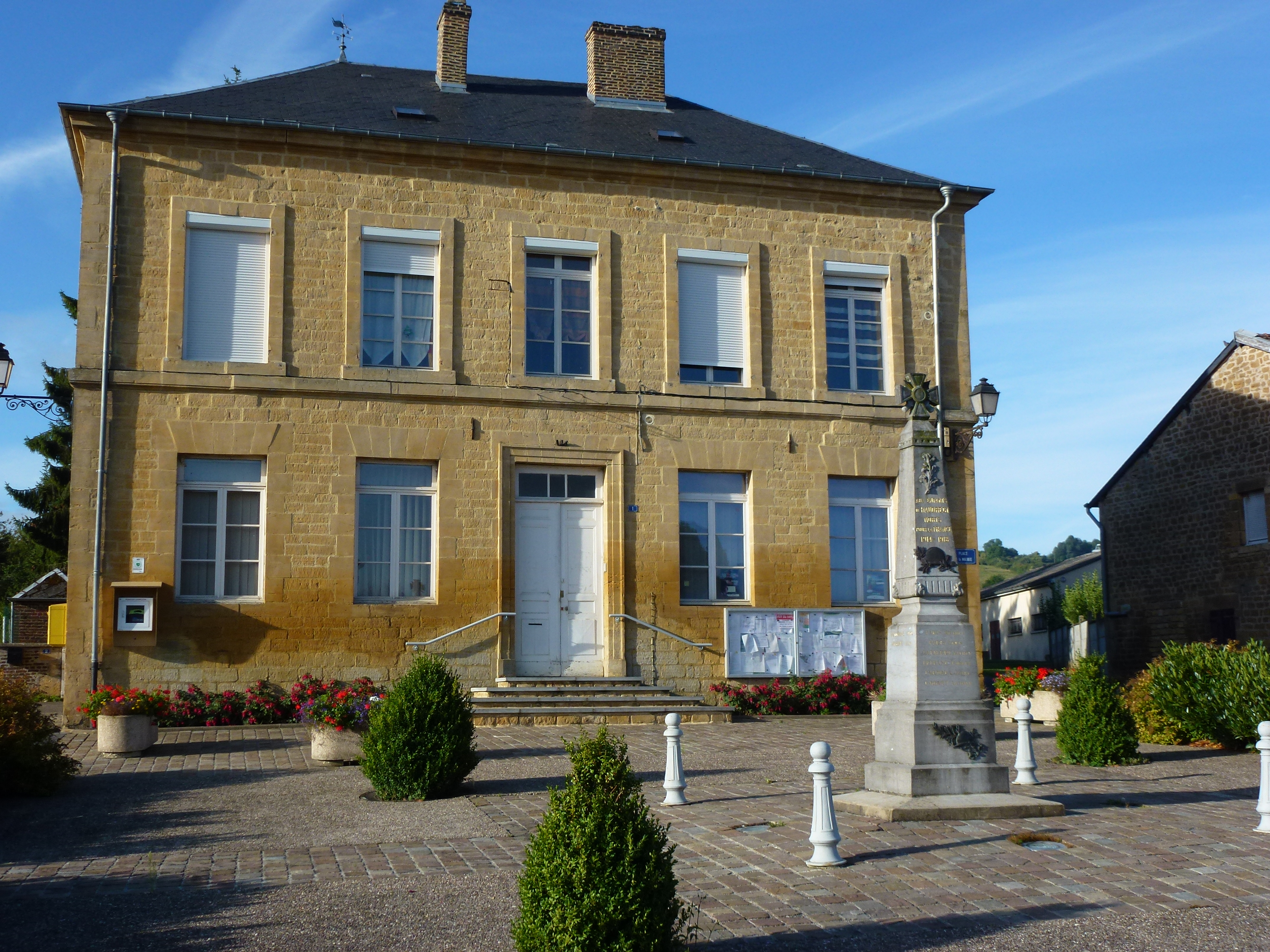 Haudrecy (Ardennes) mairie